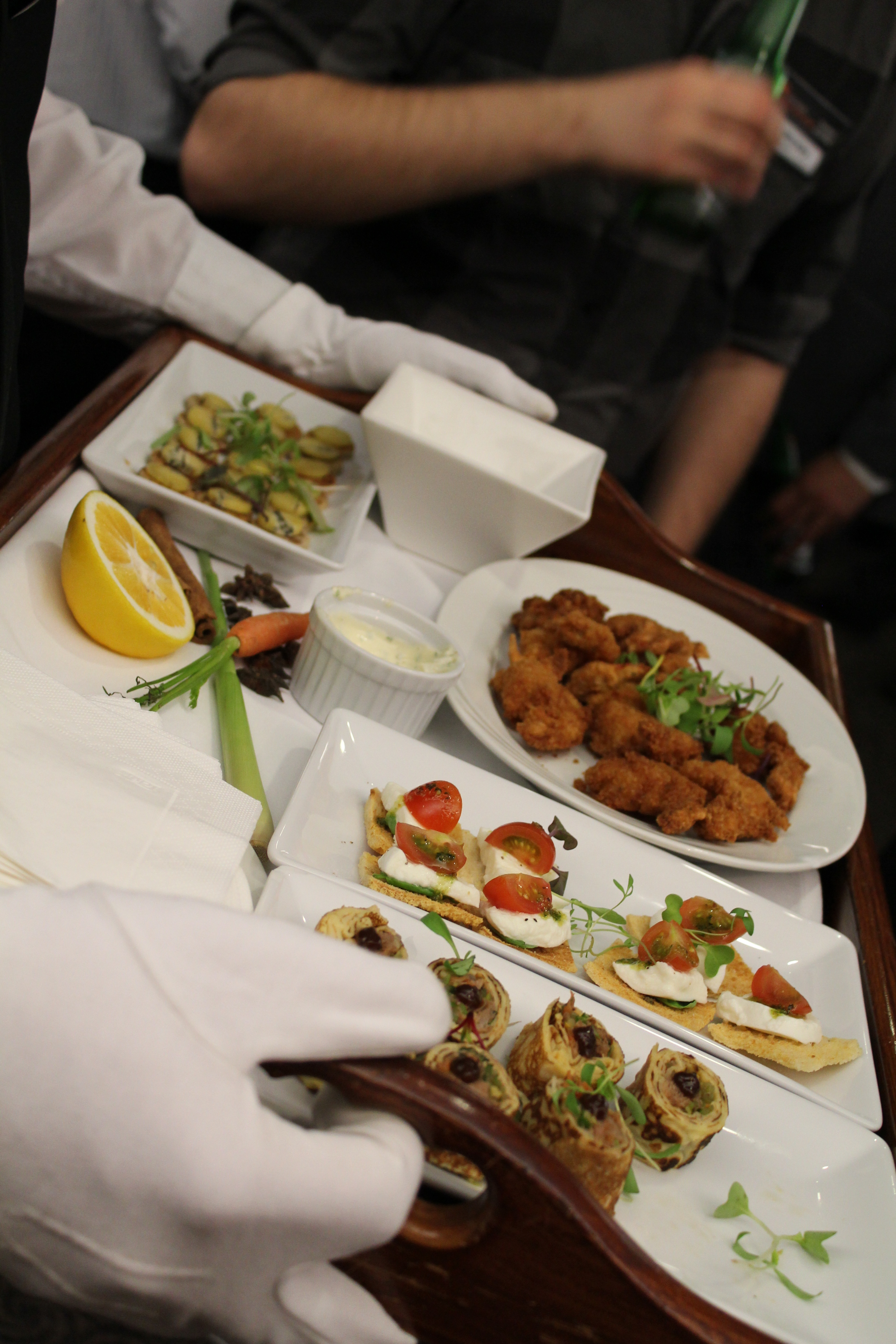 New Zealand Open Source Awards ceremony in Wellington on November 9, 2010